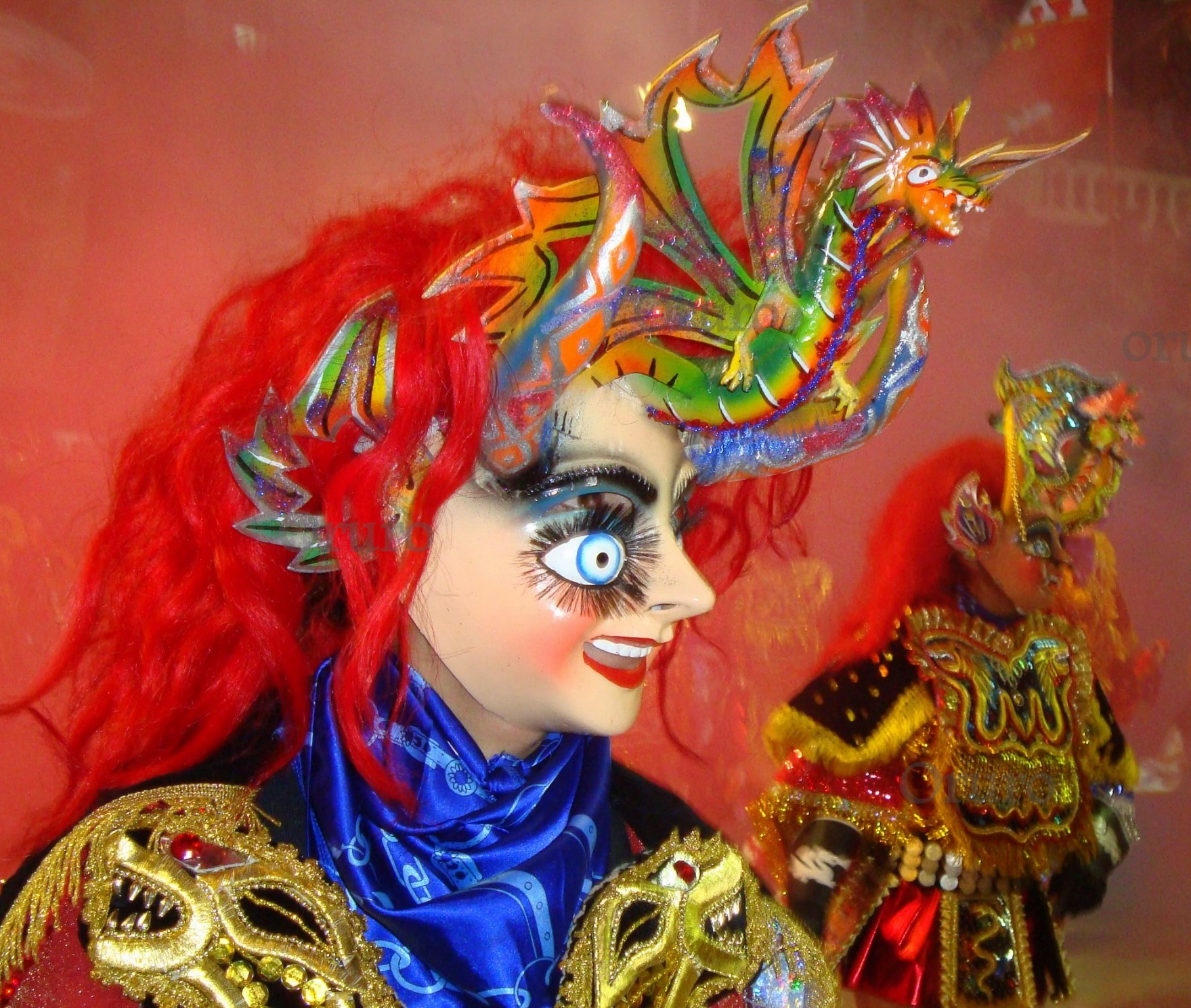 Diablada Ferroviaria of Oruro, Bolivia in the Carnival of Oruro 2009.